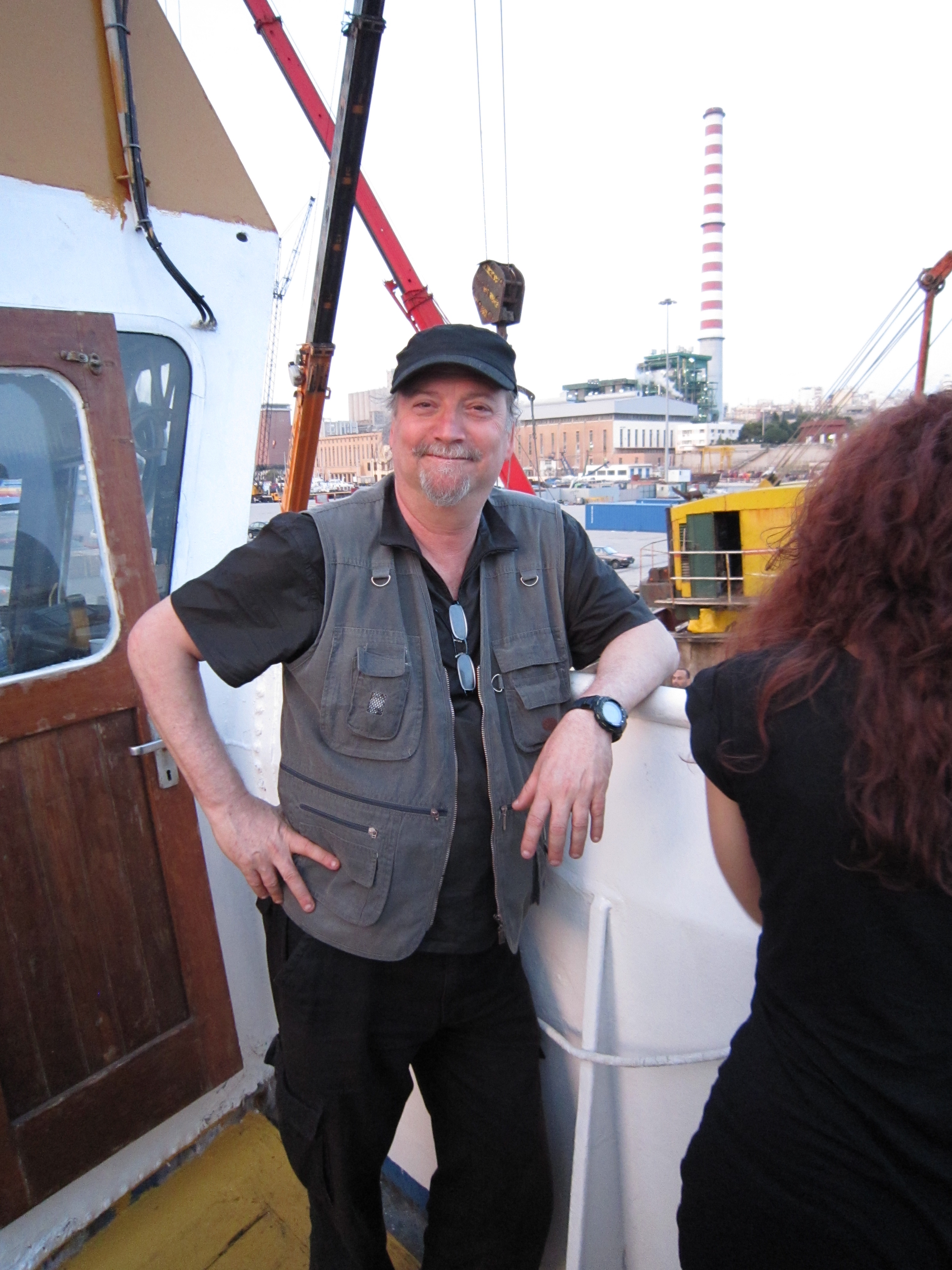 Dror Feiler pleased on board MV Sofia